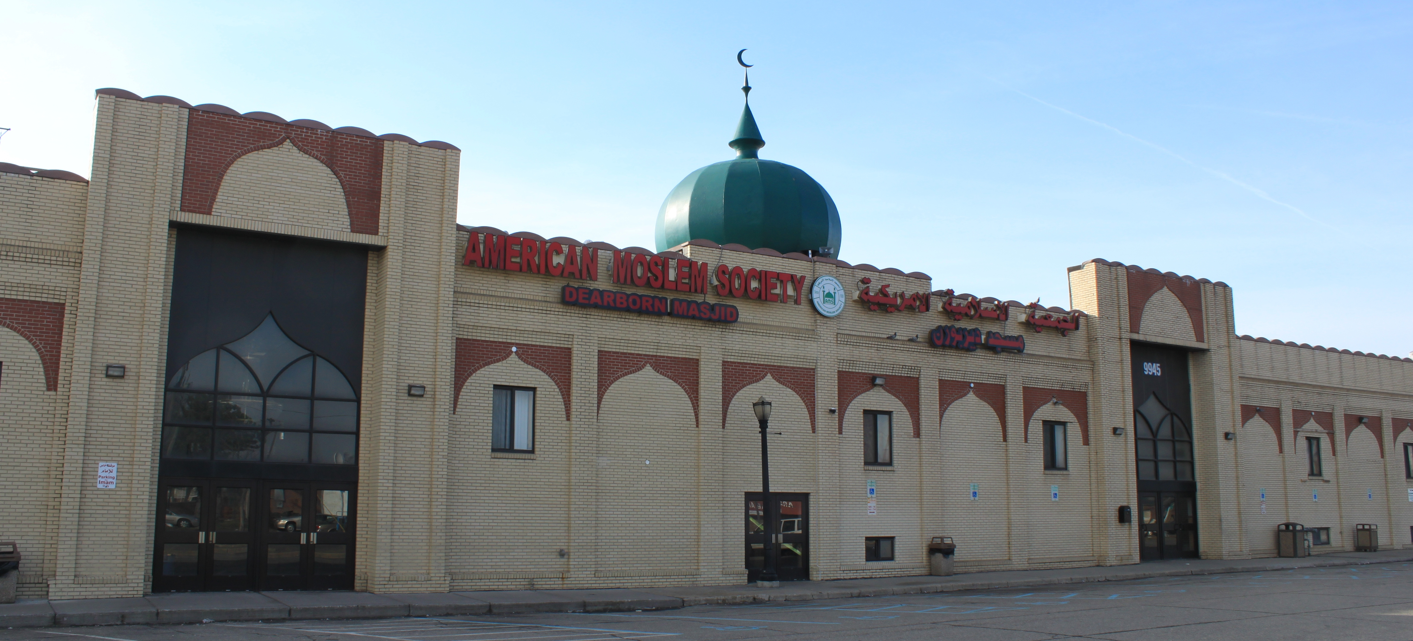 American Moslem Society Dearborn Mosque, 9945 West Vernor Highway, Dearborn, Michigan